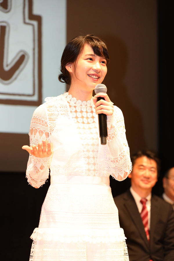 Non, Goodwill Ambassador for the Energy Saving Home Appliances, attended a commendation ceremony at the National Museum of Emerging Science and Innovation in Kōtō Ward, Tōkyō Metropolis on March 9, 2019.